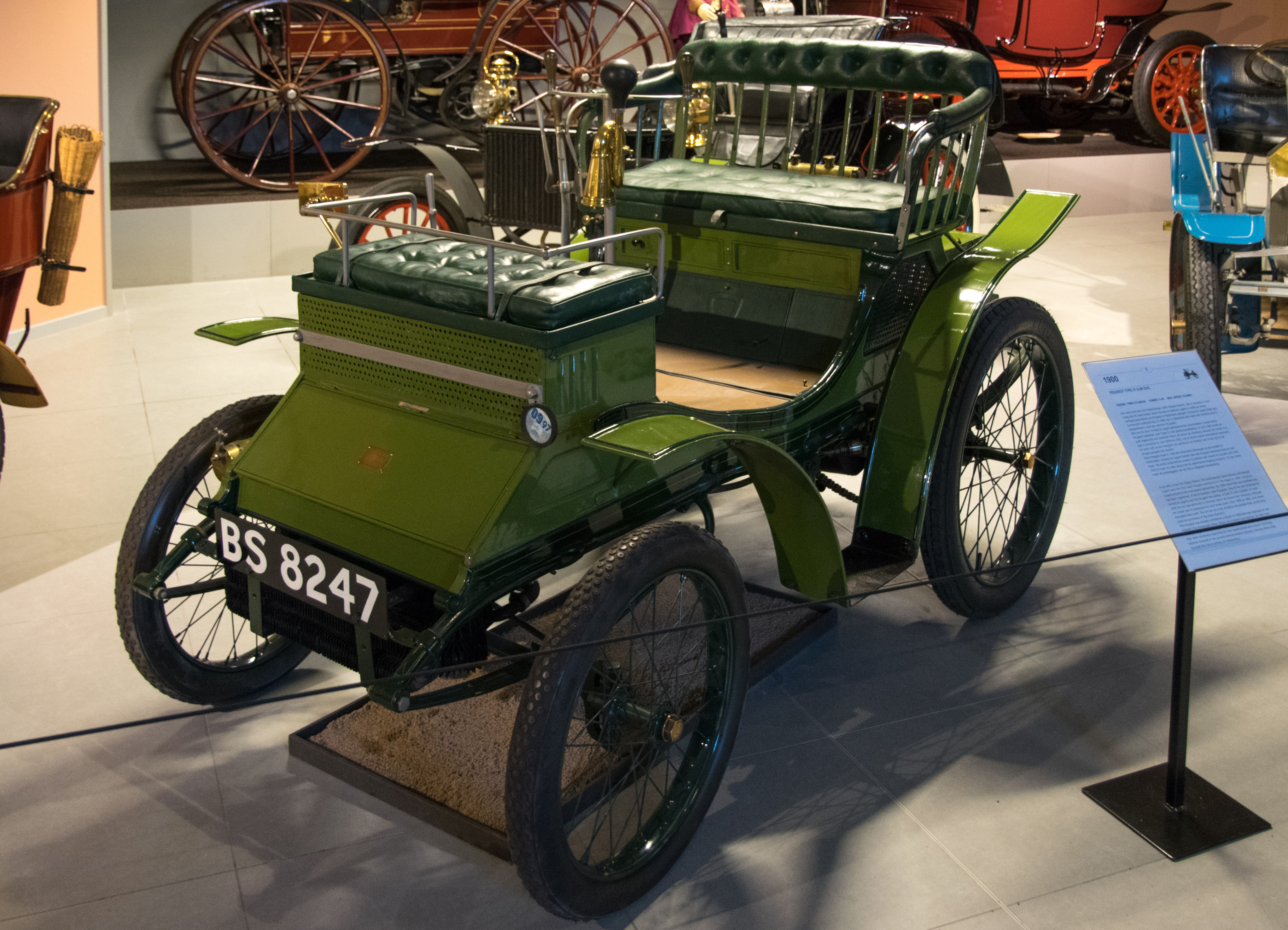 Peugeot Typ 31 (1900) in the Louwman-Museum, Den Haag